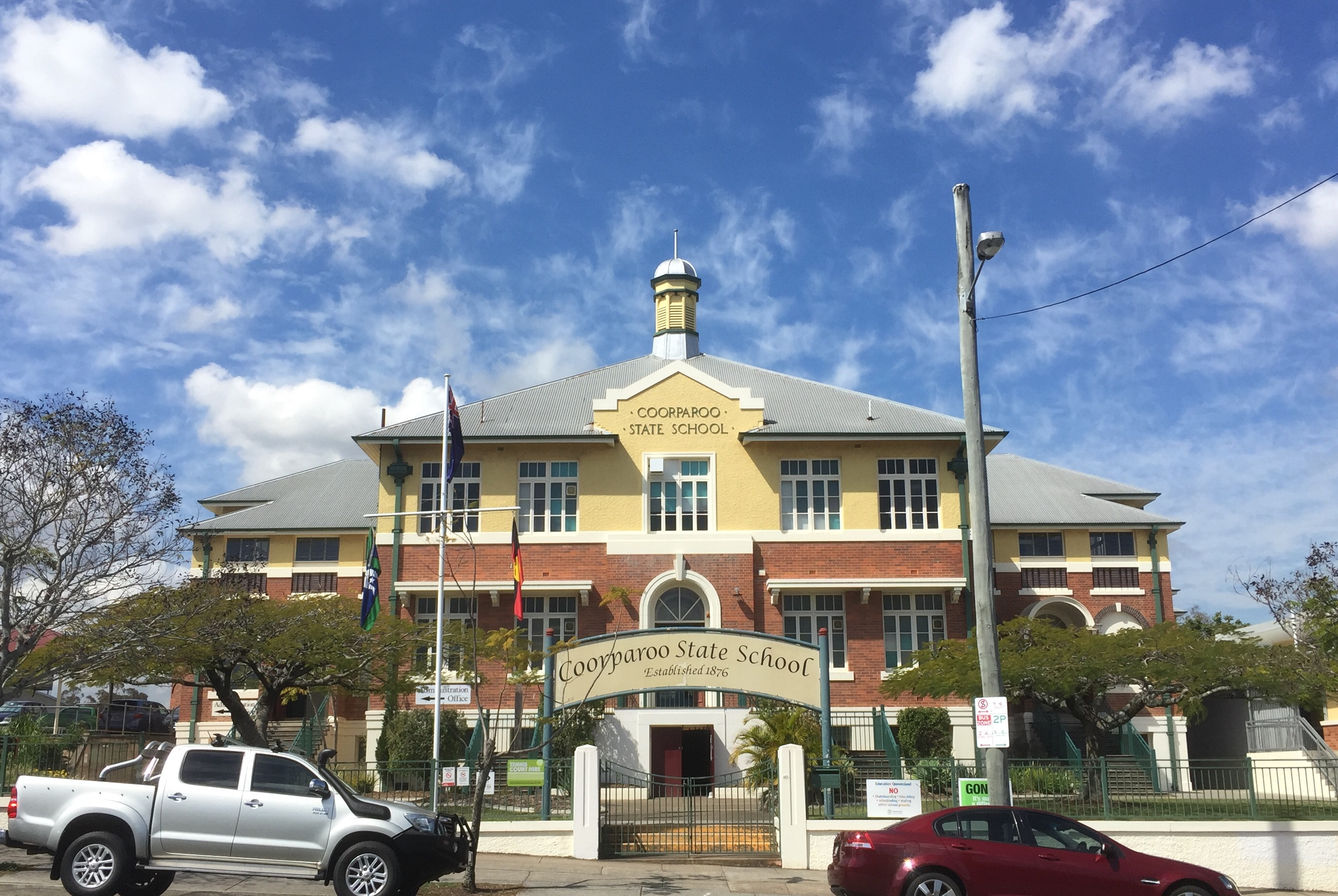 Coorparoo State School September 2016